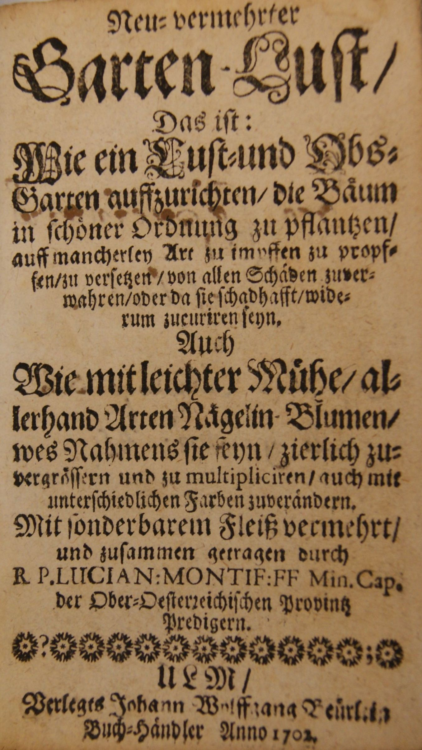 Detail of the first page of the Book of Lucianus Montifontanus "Newe Garten-Lust das ist: Ein eigentlicher gantz newer und durch lange Erfahrung erhaltener Unterricht : wie ein schöner Obs-Garten gepflantzet", (1698) 1702, edition photographed in the Vorarlberg State Library, Sig. VA Lucia 1702/1.